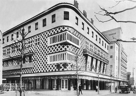 The Yūraku-za Theatre in the pre-war time.